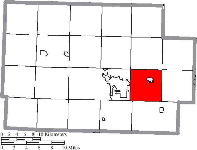 Map of the municipal and township boundaries of Coshocton County, Ohio, United States, as of the 2000 census, with the location of Lafayette Township highlighted. Township borders are shown only in unincorporated areas in order to differentiate incorporated and unincorporated areas more clearly.